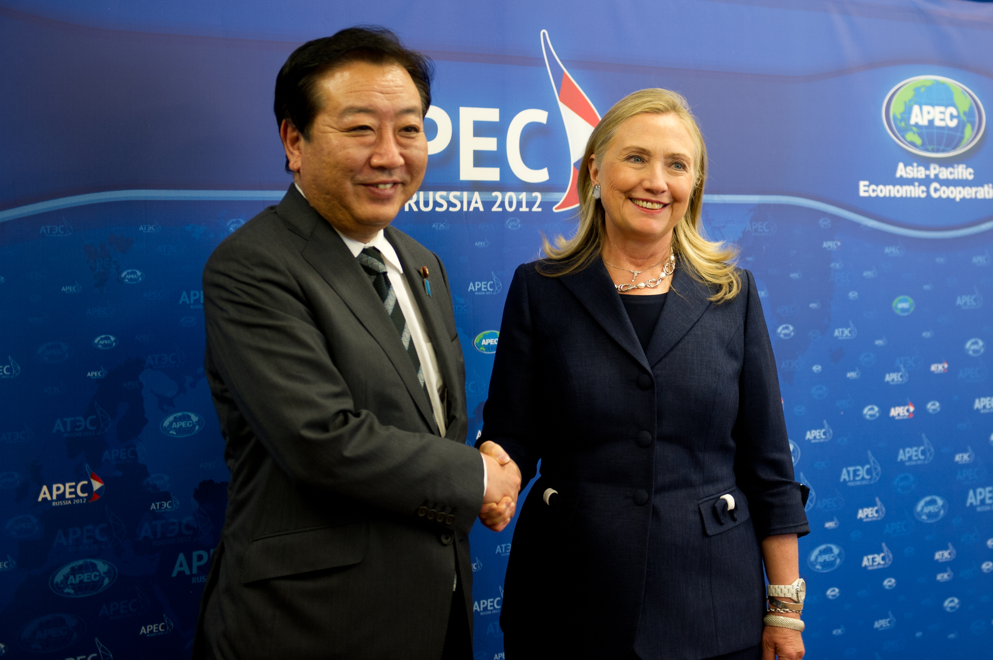 VLADIVOSTOK, Russia (September 8, 2012) U.S. Secretary of State Hillary Rodham Clinton greets Japanese Prime Minister Yoshihiko Noda before their meeting during the Asia-Pacific Economic Cooperation (APEC) Leaders' Week [State Department photo by William Ng/Public Domain]